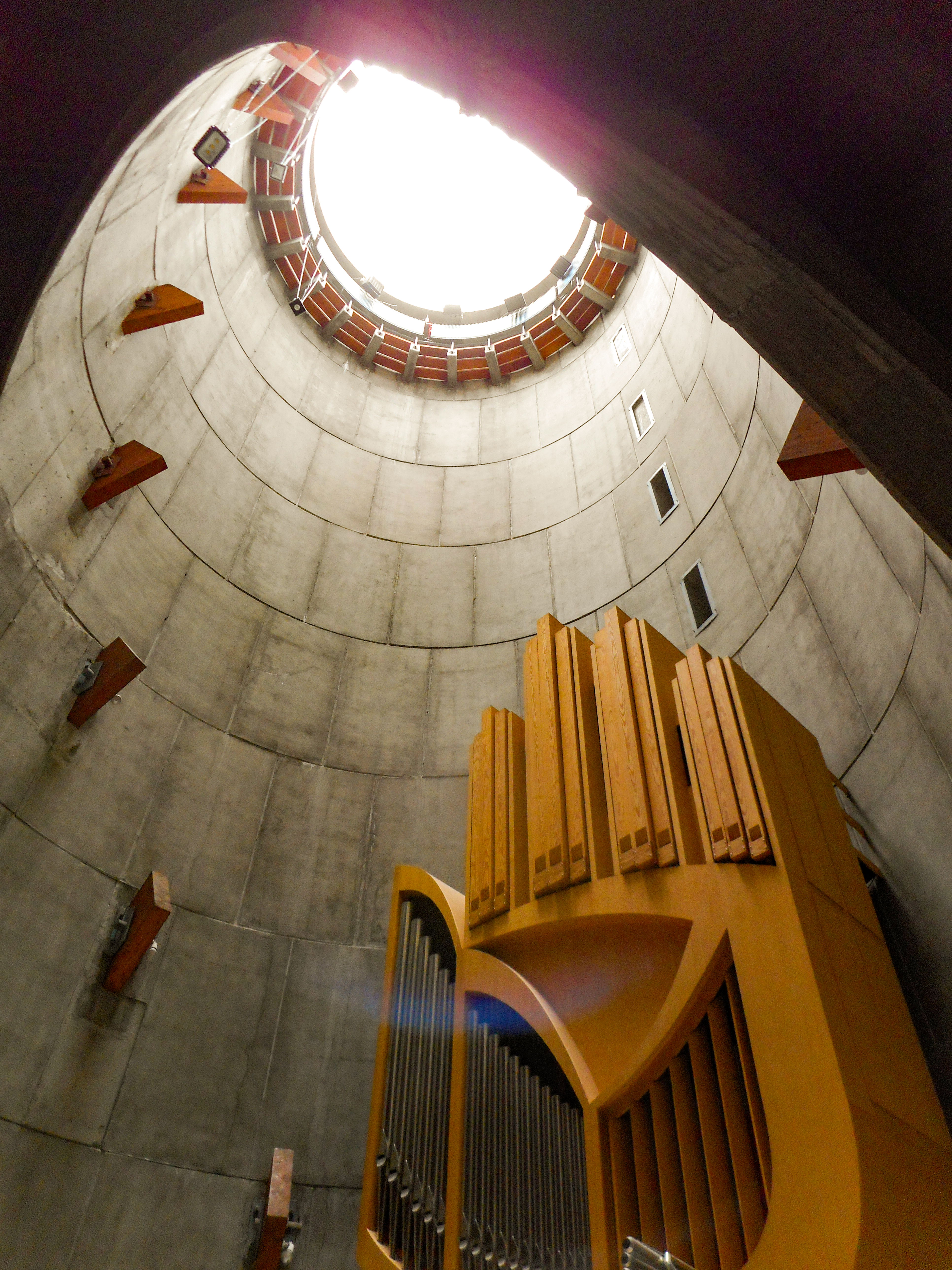 A pipe organ, whose organ case is in the shape of hand. The instrument was designed by the composer Jean Guillou, and built by the German organ builder Detlef Kleuker.